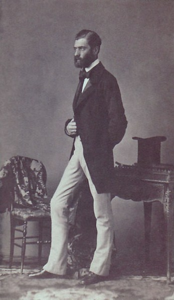 Mihailo Obrenović III